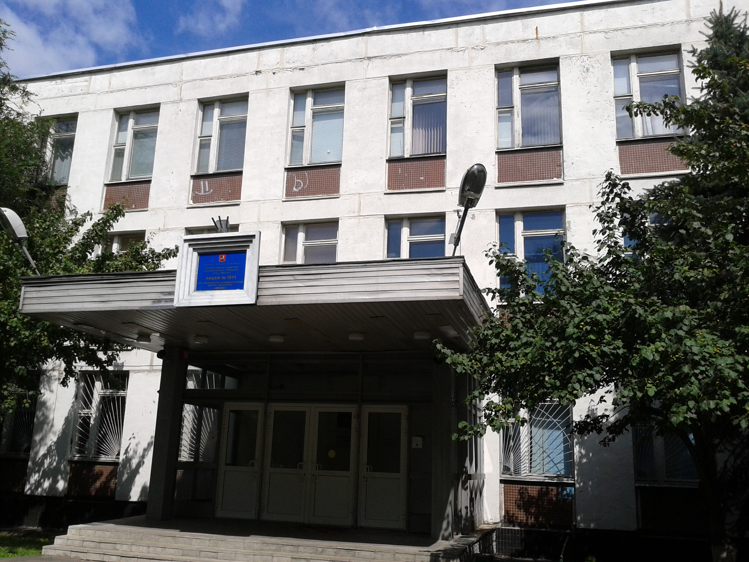 Lyceum No. 1511, Moscow, Russia (former school No. 542)